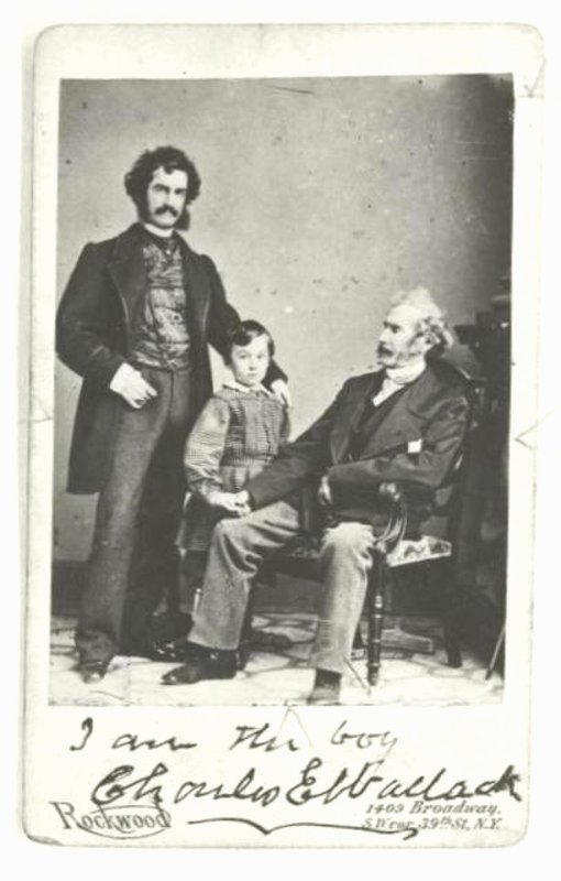 The actors James William Wallack (1794–1864, father, right) and John Lester Wallack (1820-1888, son, left)